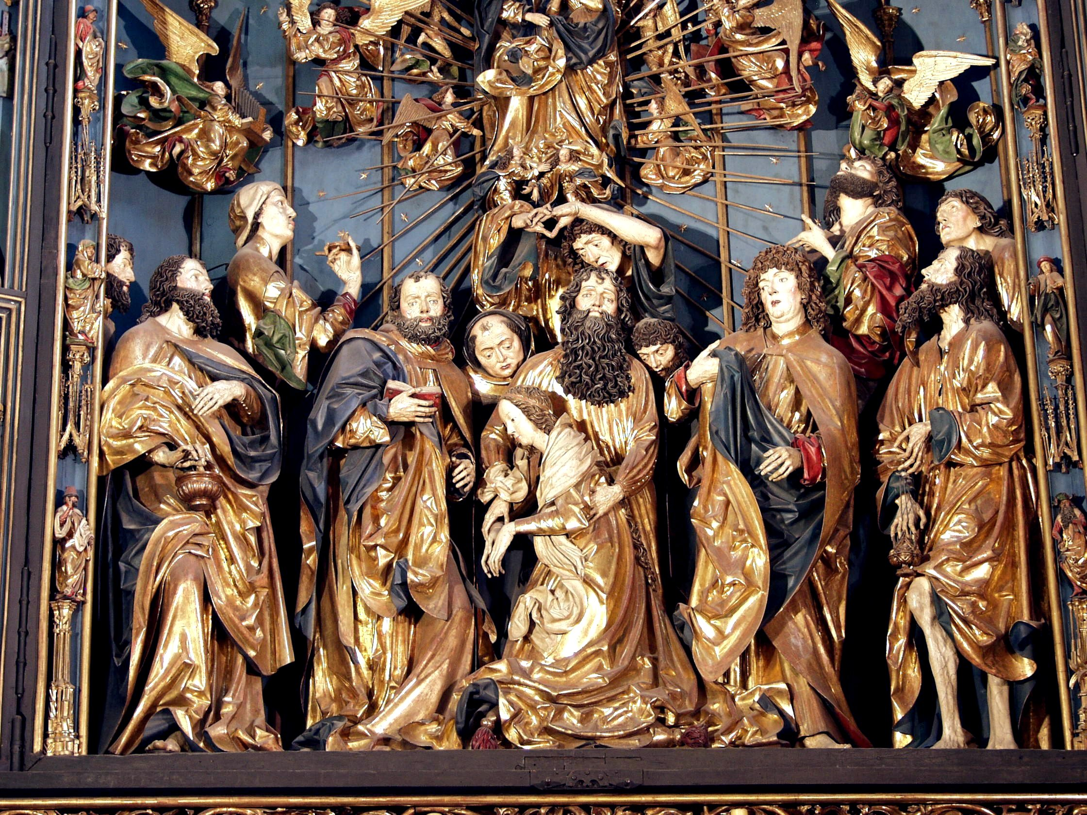 Altar of Veit Stoss, Center, St. Mary's death, St. Mary's Church, Krakow, Poland